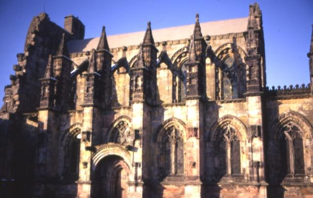 Rosslyn Chapel. The Collegiate Church of St Matthew was founded in 1446 by Sir William Sinclair. It featured recently in Dan Brown's bestseller "The Da Vinci Code"